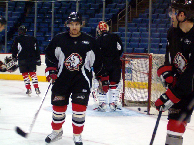 Derek Roy, ice hockey center of the Buffalo Sabres